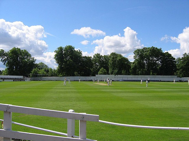 Cricket Field: Newcastle Cricket Club